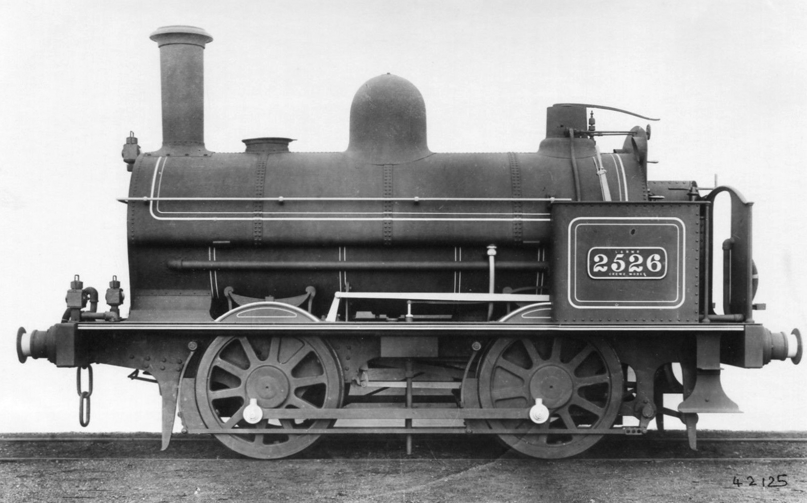 Photograph of LNWR engine No. 2526, 4ft Shunter 0-4-0ST